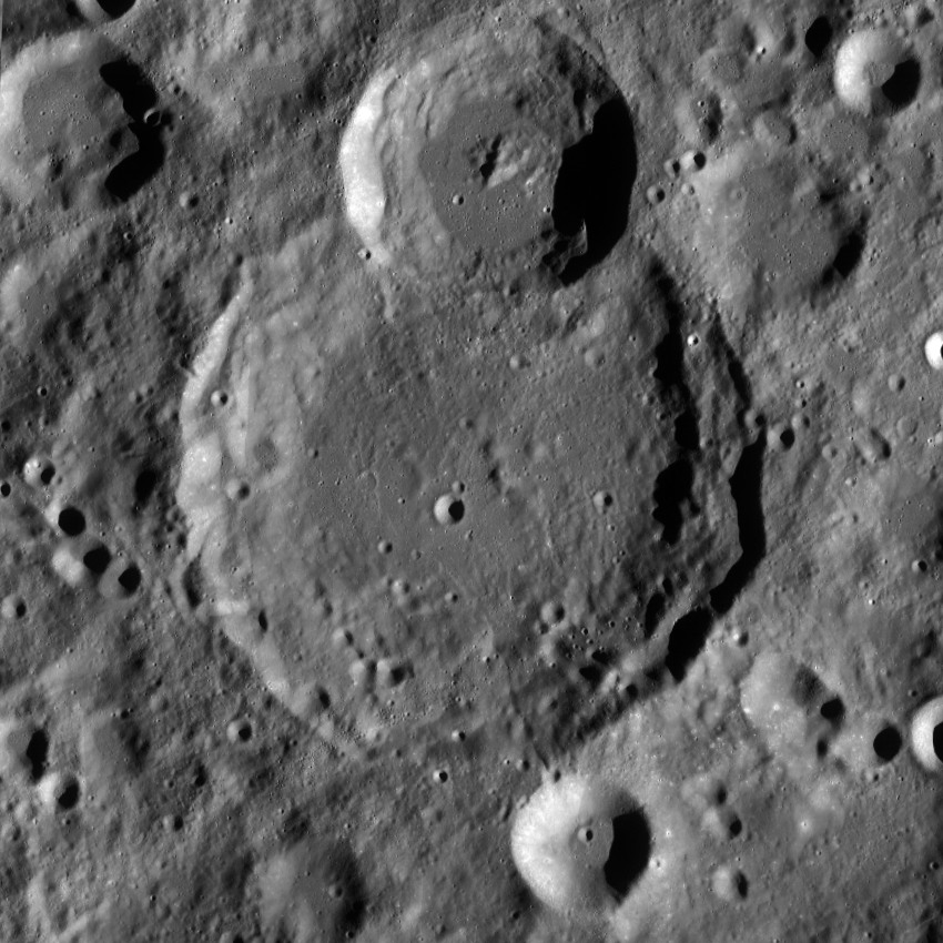 Larmor crater, on the far side of the moon. LRO Wide Angle Camera mosaic.